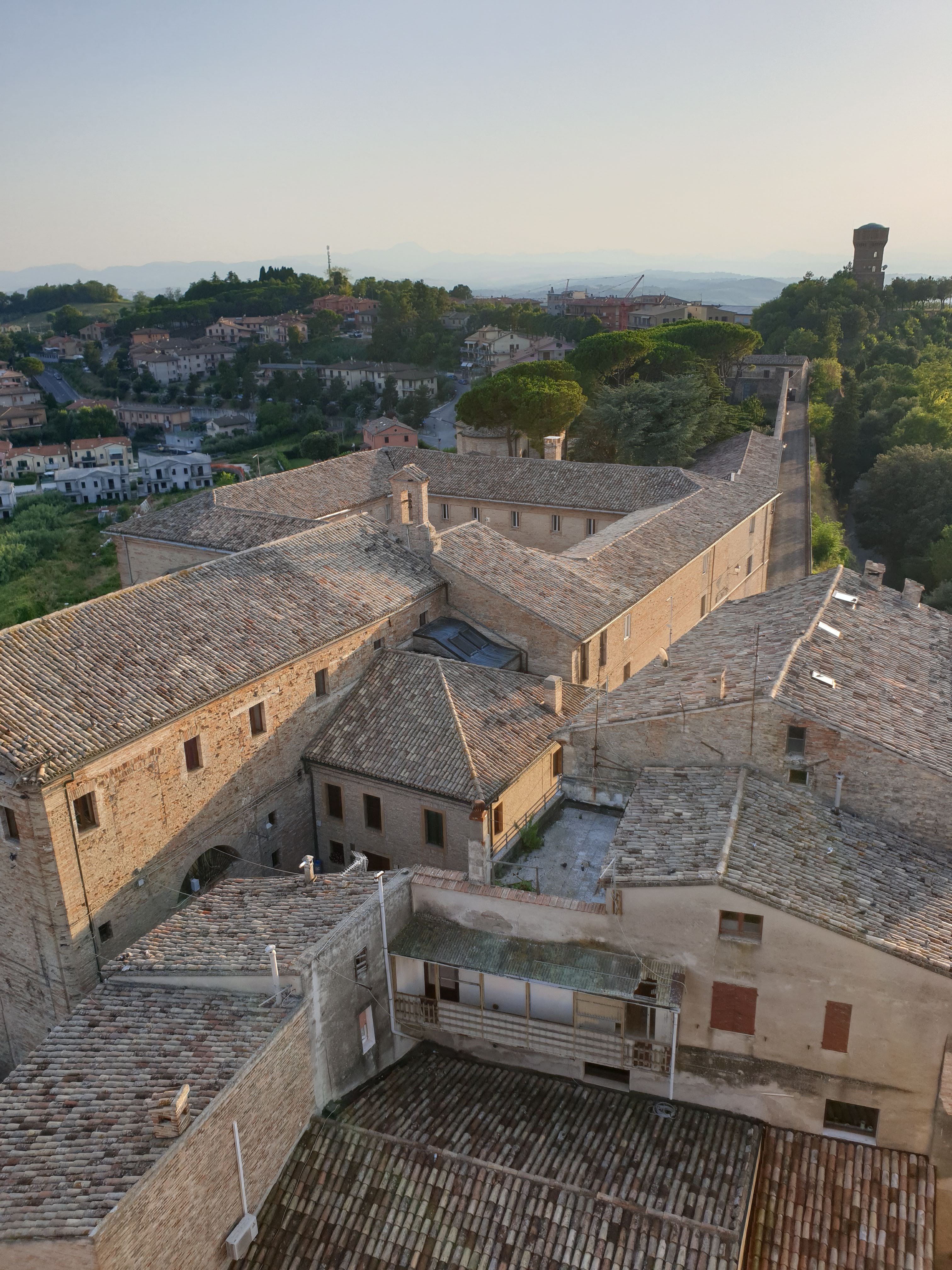 View of Offagna from the tower of the Rocca. in the foreground, is the monastery of Santa Zita